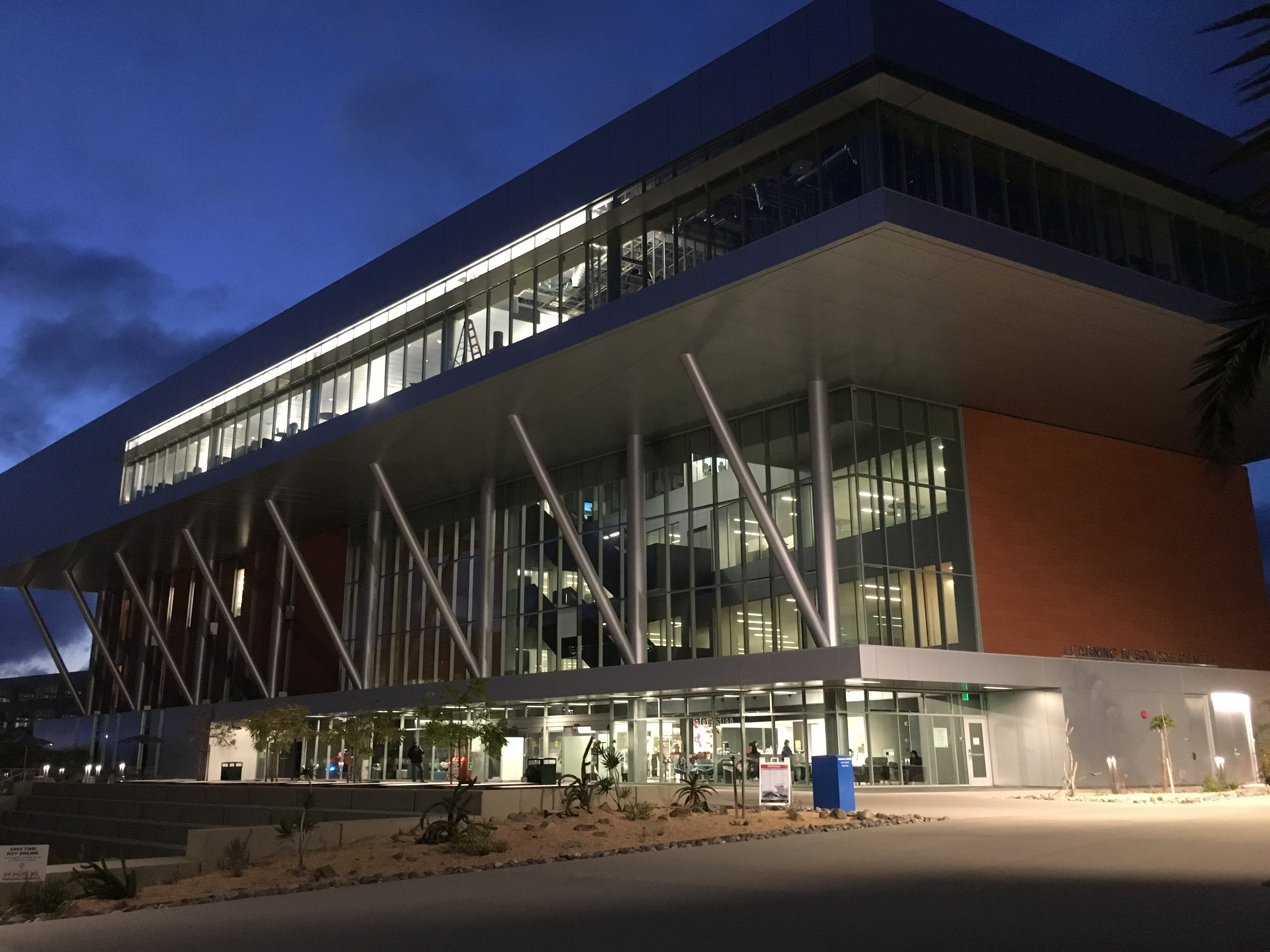 The new Palomar College library. It opened at the start of the Spring 2019 semester. Photo taken by me, Eric B (Alicezeppelin).